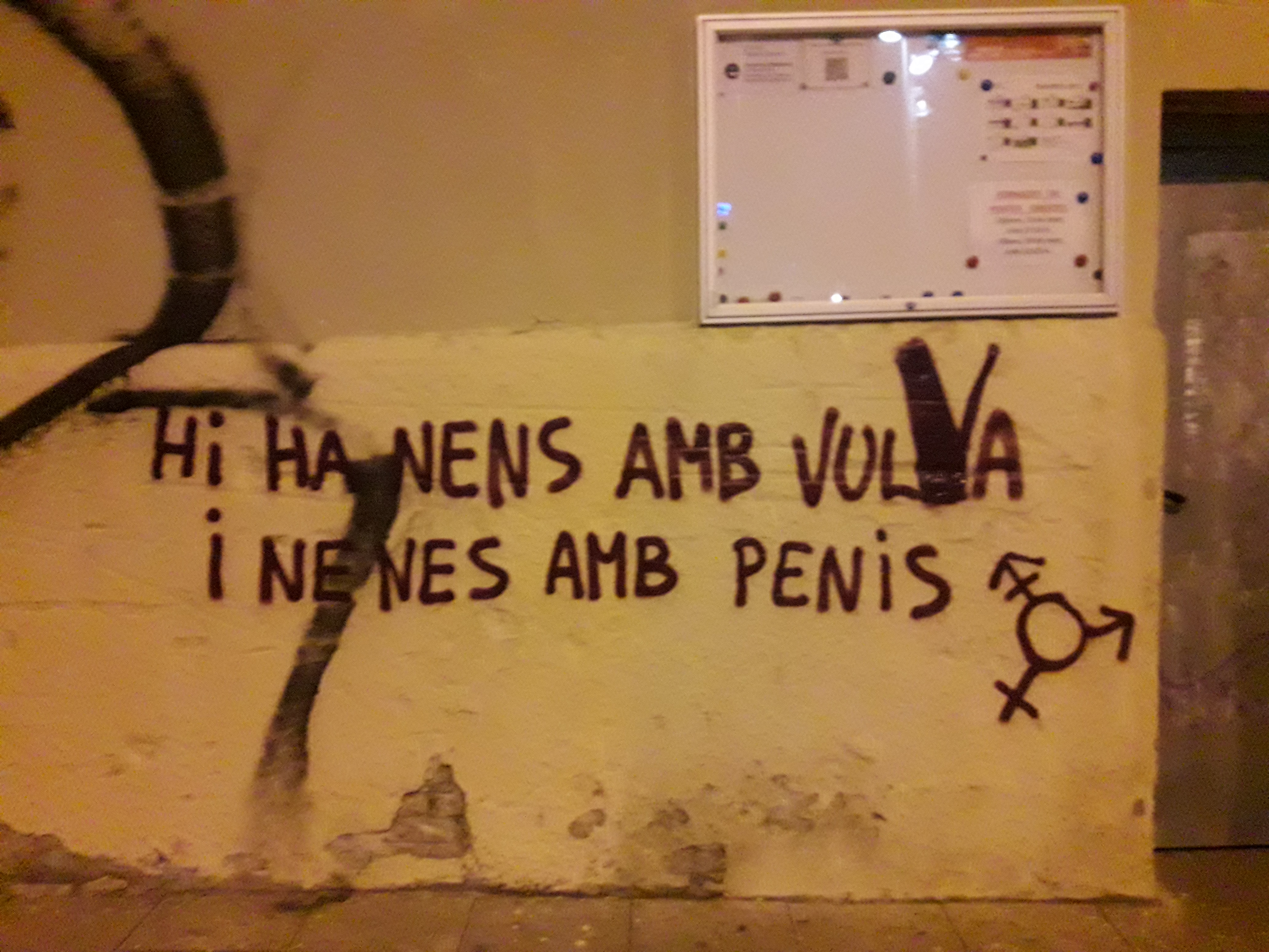 "There are boys who have vulva and there are girls who have penis", LGTBI-feminist street art made by women. Grafitti showing solidarity with transexua people, after a homofobic and transfobic spanish organitation called "Hazte Oir" had maden advertising, using public money, against young boys and girls who feel gay or trans. Trans-gender symbol. Women's Day. Demonstrations, protests and accions "women by night" ("la nit és nostra"). Barcelona, 2017.